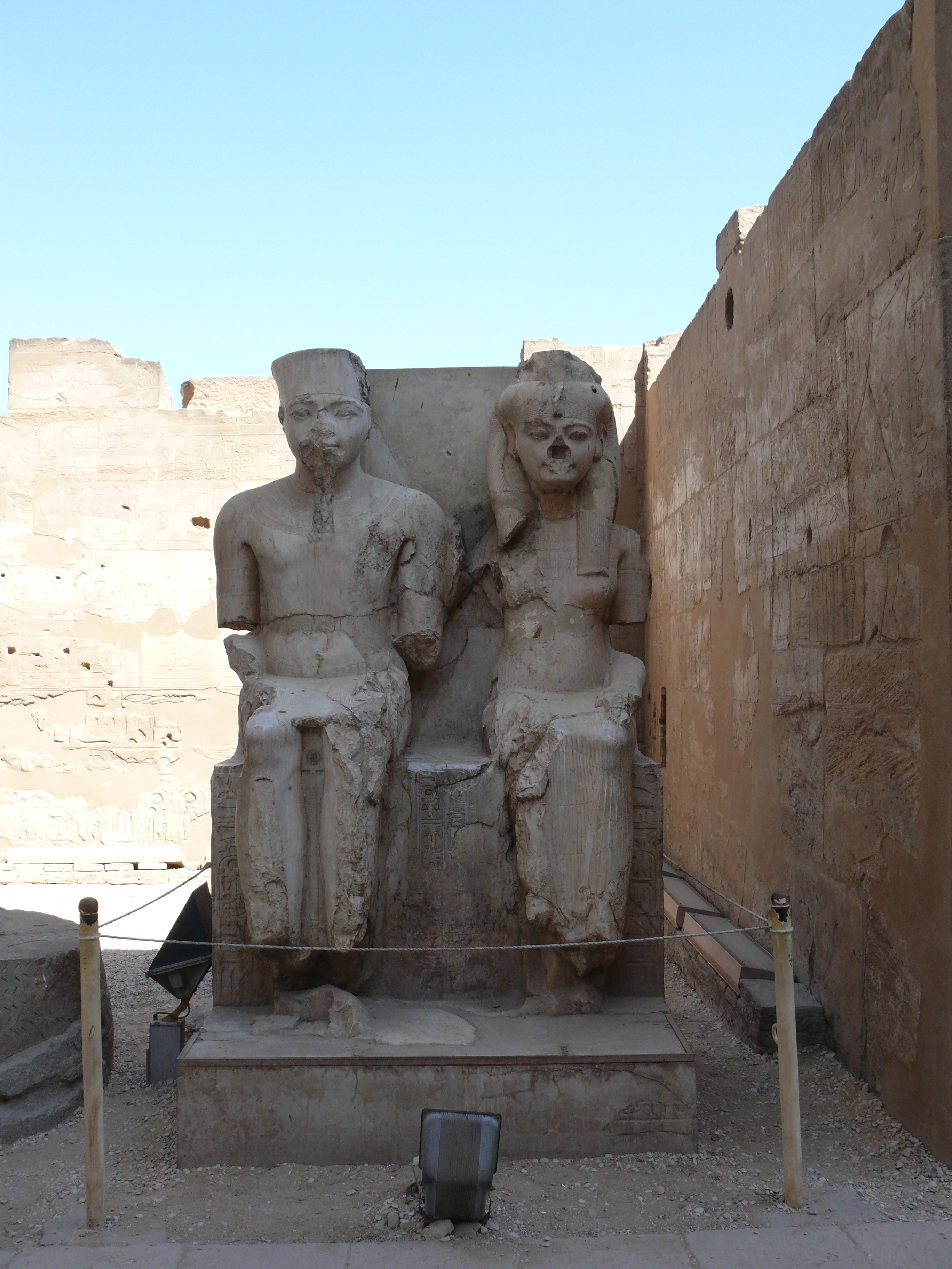 Statues of a young Tutankhamun and his consort Ankesenamun at Luxor Temple, Luxor, Egypt.